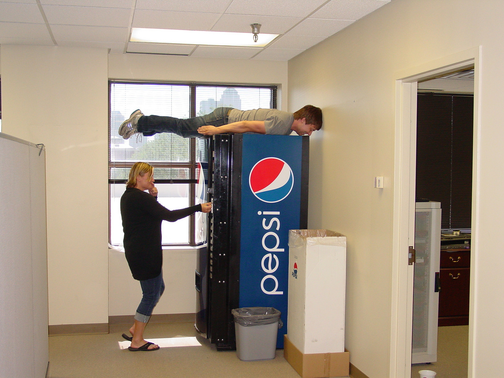 Planking